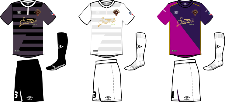 Highlanders kits (home/away/primary GK), 2016